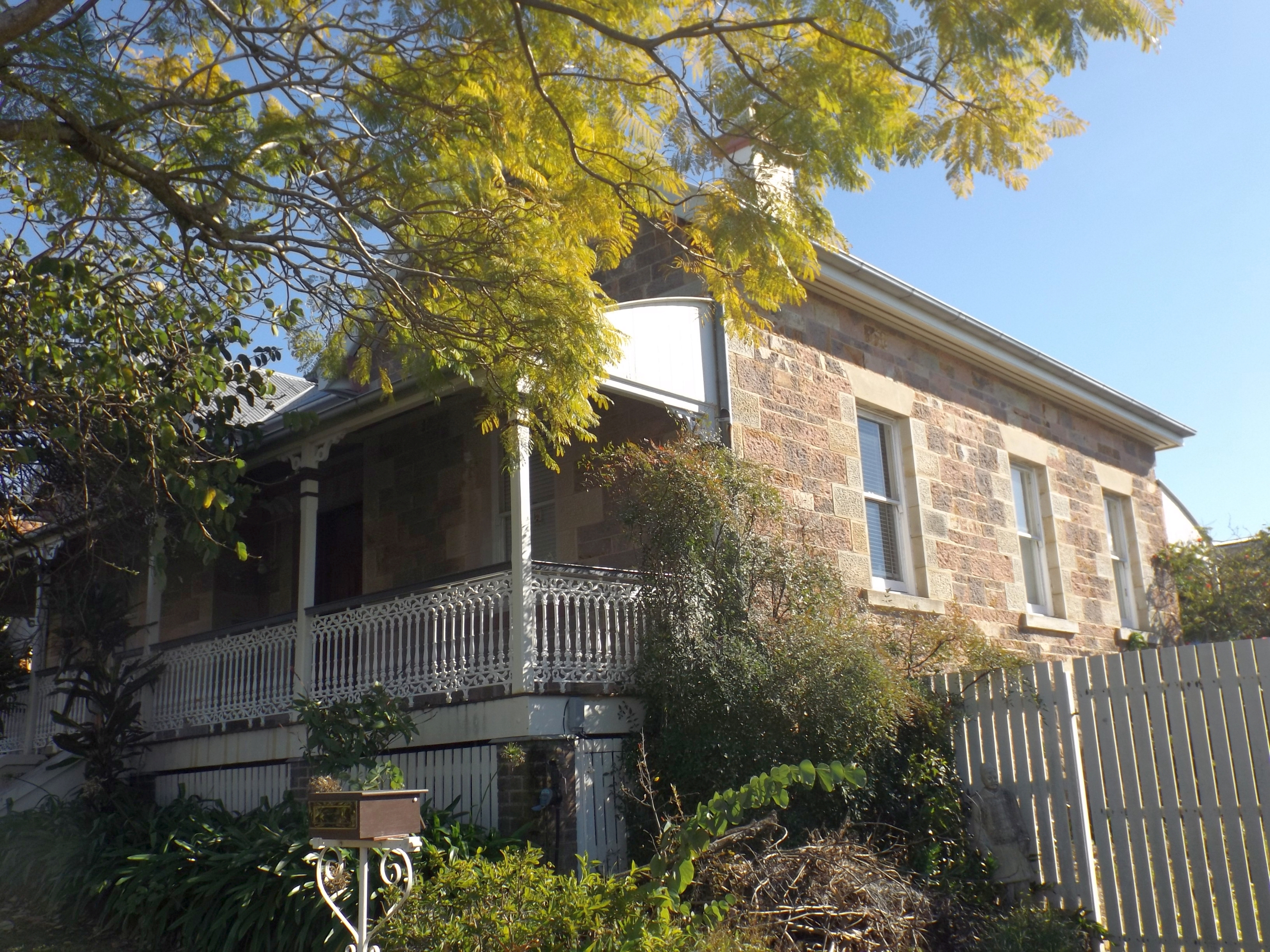 Photo of the side of Craigellachie residence at Windsor, Brisbane, Queensland, Australia.